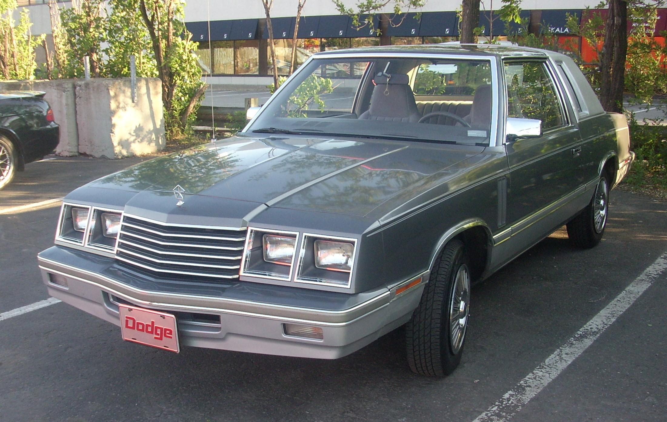 1982 Dodge 400 photographed in Montreal, Quebec, Canada at Gibeau Orange Julep.